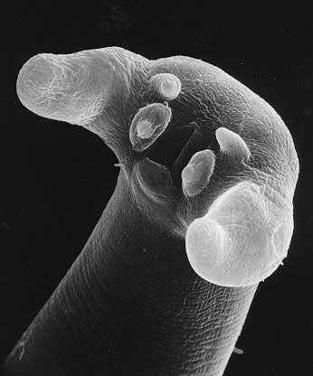 Trichinella nativa